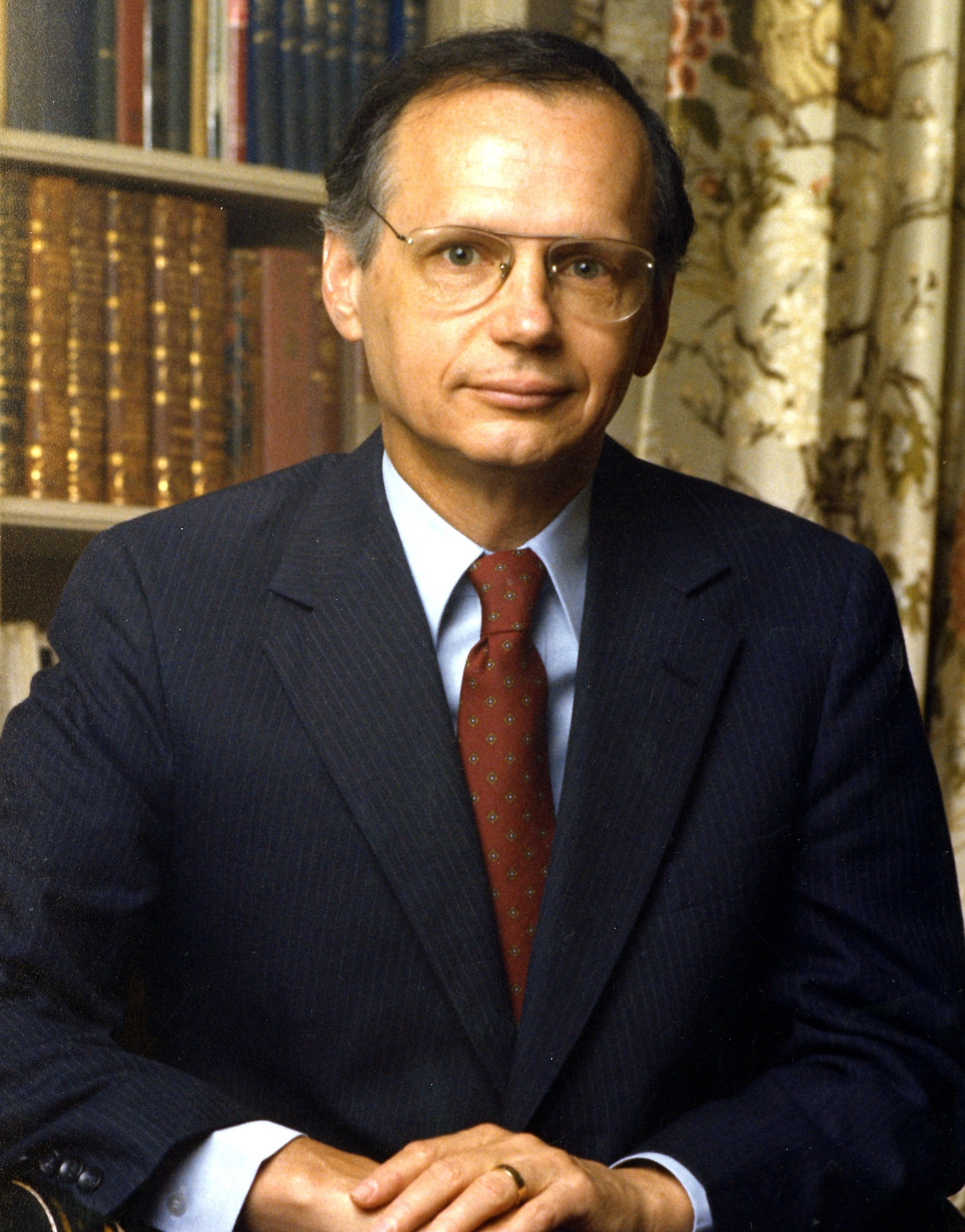 A portrait of South Carolina Governor Dick Riley (1979-1987)